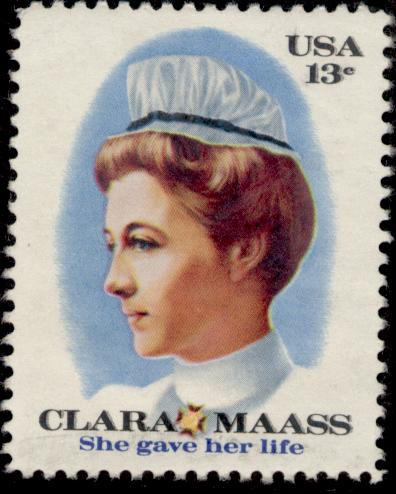 Clara Maass (She gave her life) This is a United States 13-cent postage stamp.